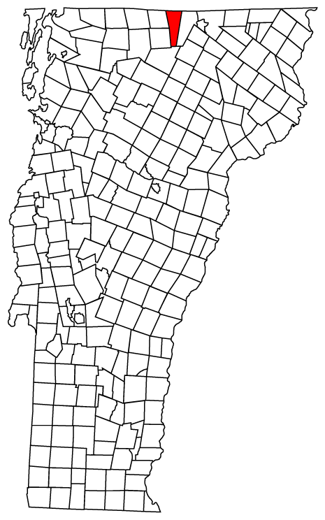 Description: Map of Vermont towns with Troy highlighted Source: Map created by Jared C. Benedict on 26 March 2004. Copyright: © Jared C. Benedict.